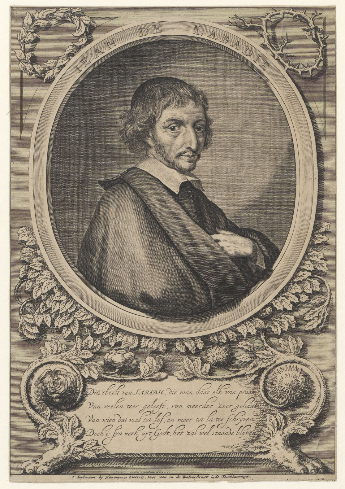 Jean de Labadie, (1610-1674), Founder of the Labadists sect